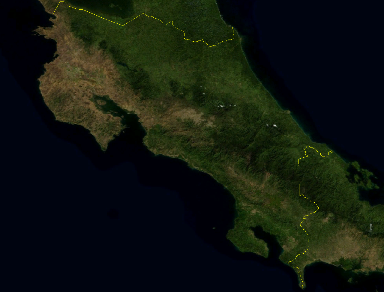 Satellite image of Costa Rica in March 2004. Blue Marble Next-Generation image.